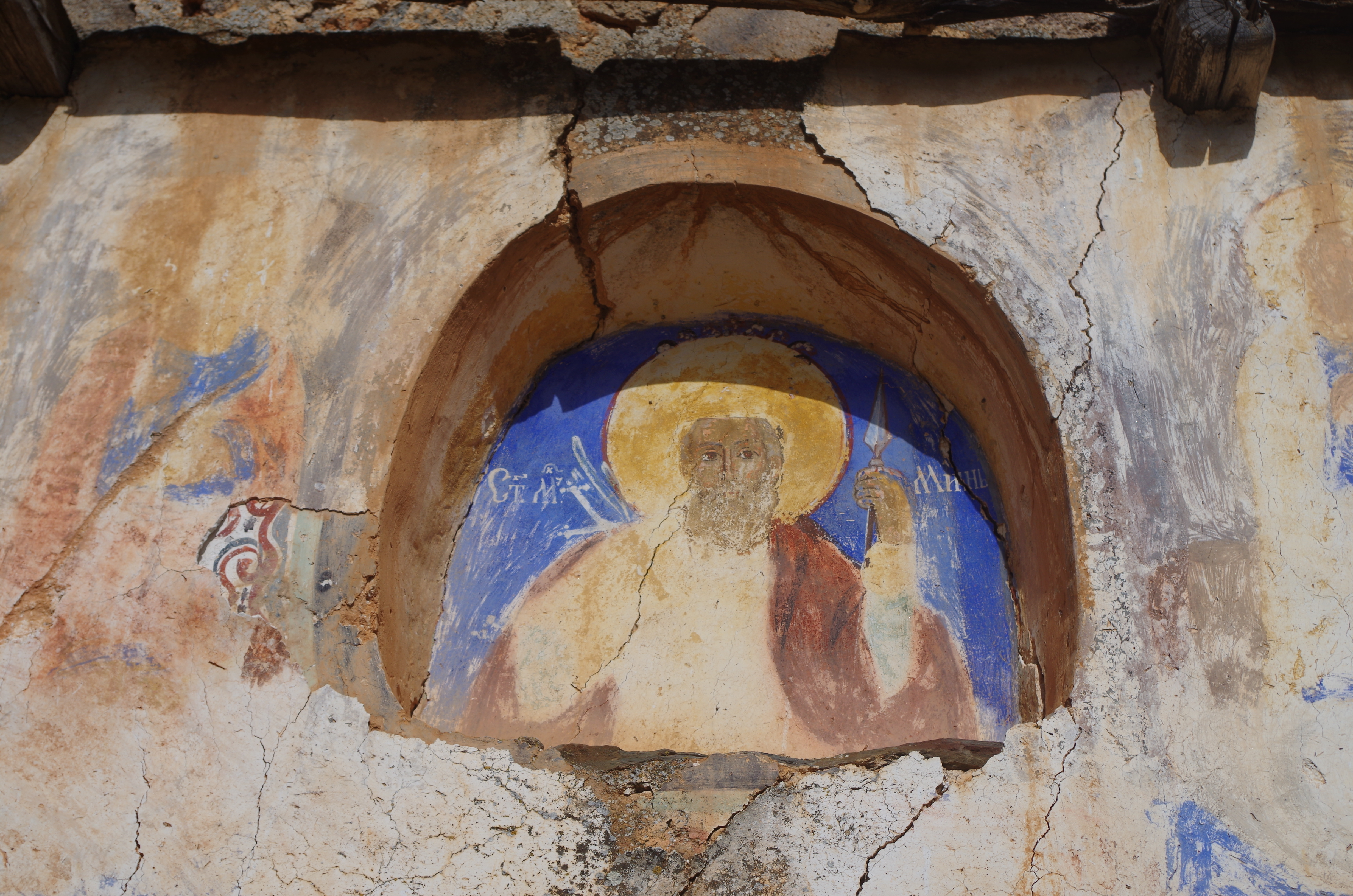 Fresco above the opening door of St. Mina Church in the village of Garnikovo